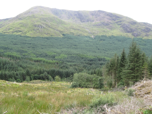 Edge of track, dense forestry with Coire Dubh below Fraochaidh beyond Stream dropping down from Coire Dubh is (OS 25000) Allt Coire Dhuibh